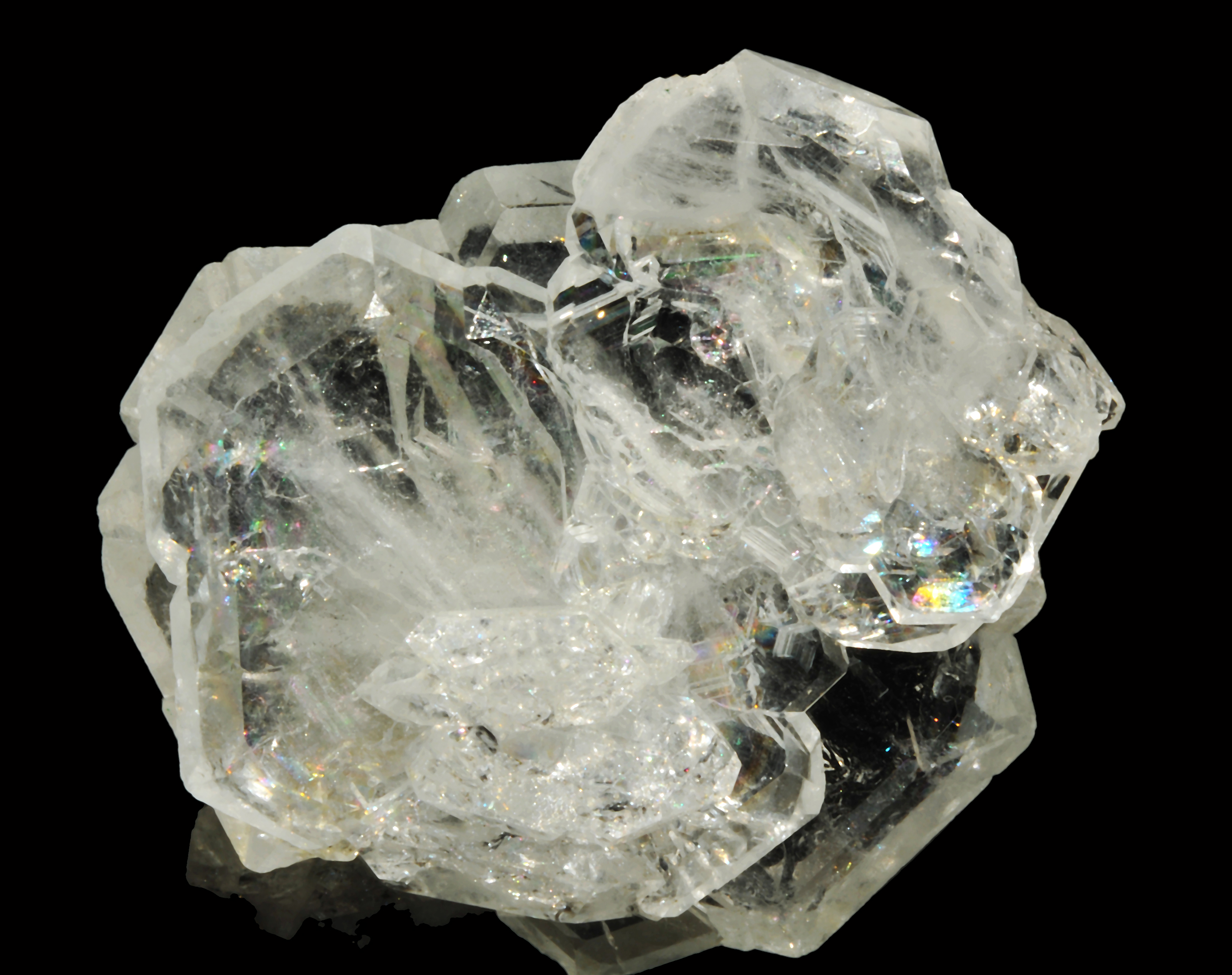 crystals of beryl var. goshenite : Huya W-Sn-Be deposit (Pingwu beryl mine), Huya village, Mount Xuebaoding, Pingwu County, Mianyang Prefecture, Sichuan Province, China